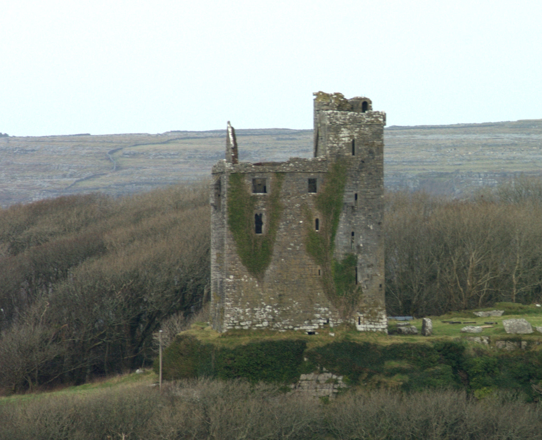 15th or 16th century two-stage towerhouse near Doolin, Co Clare Ireland, Danny Burke